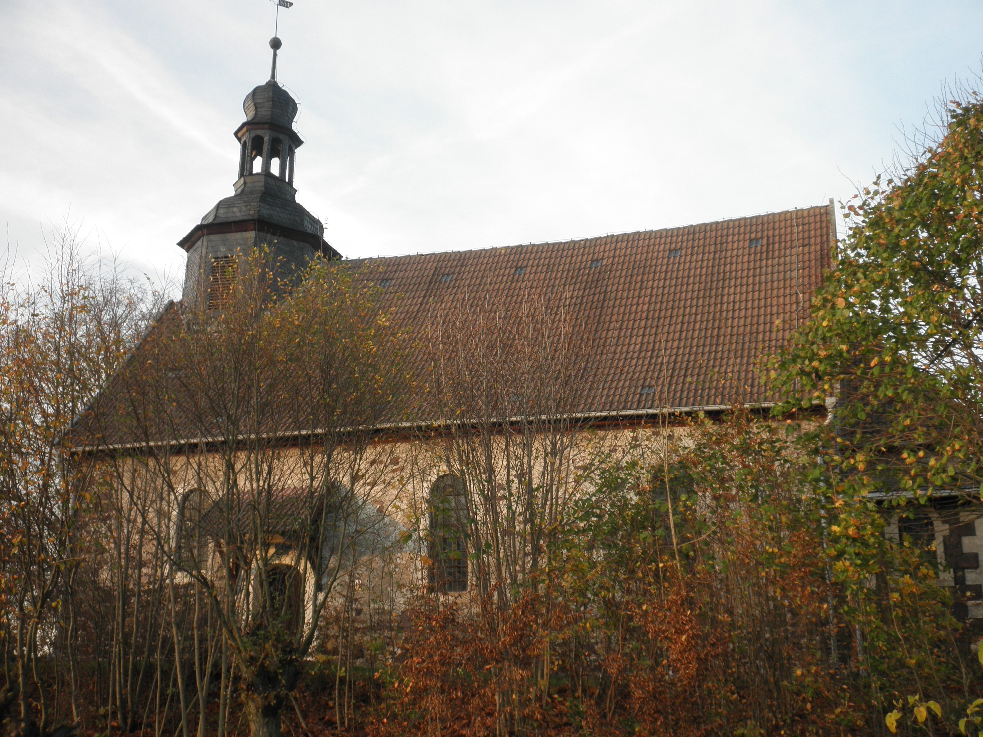 Church in Appenrode (Ellrich) in Thuringia